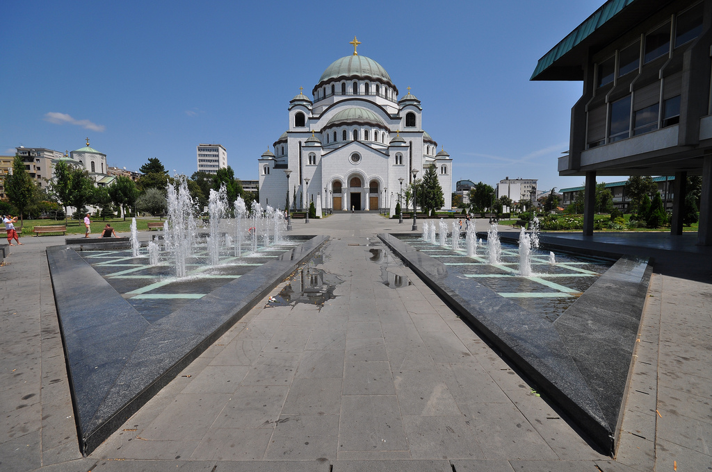 St. Sava Memorial Cathedral. The construction preparations have lasted since 1894. The building of the church structure is being financed exclusively by donations. Although still under construction, this monumental temple is a symbol of the Serbian Orthodoxy